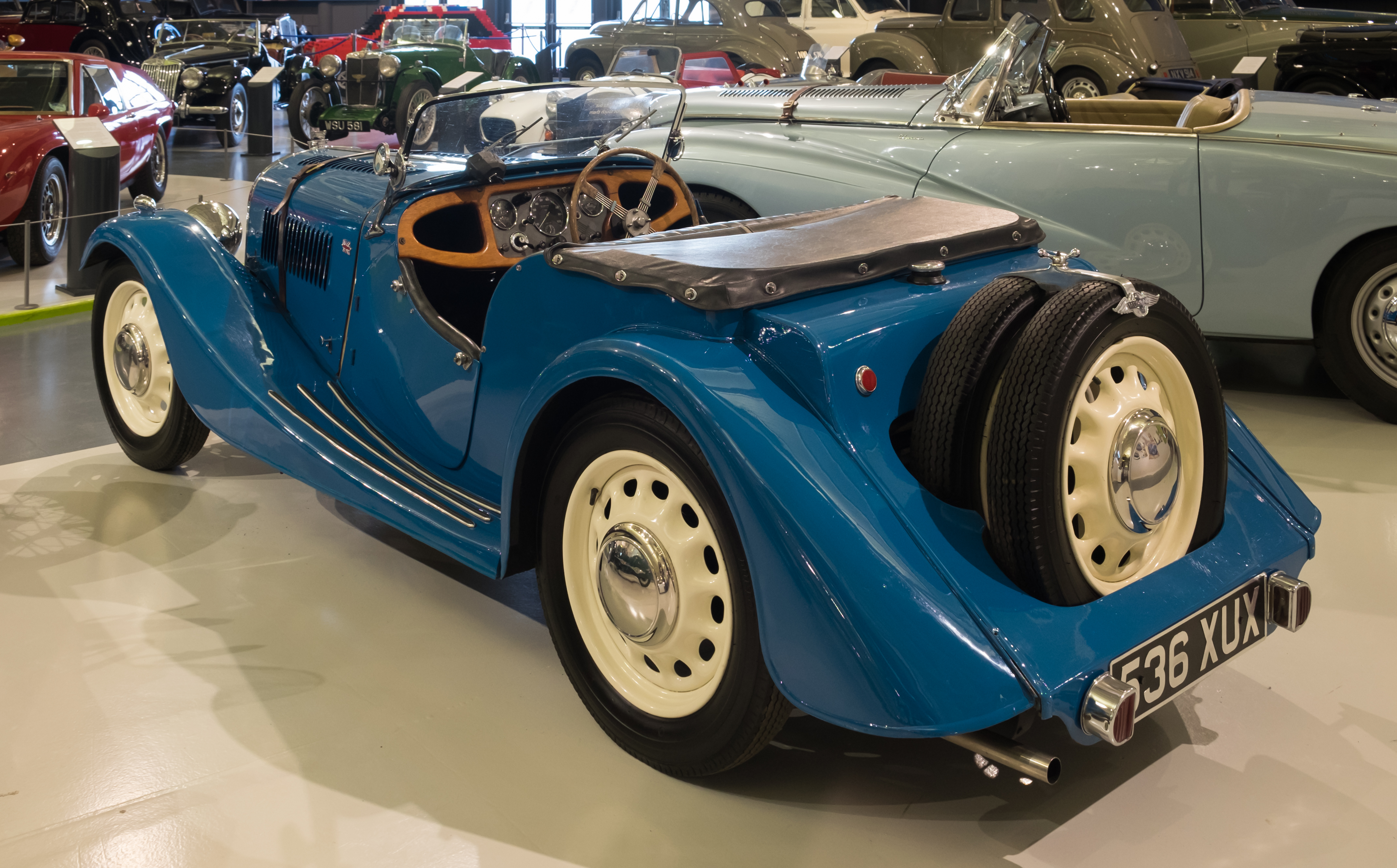 A 1939 Morgan 4/4. This car, with registration mark 536 XUX, is now kept at the British Motor Museum, Gaydon, UK.